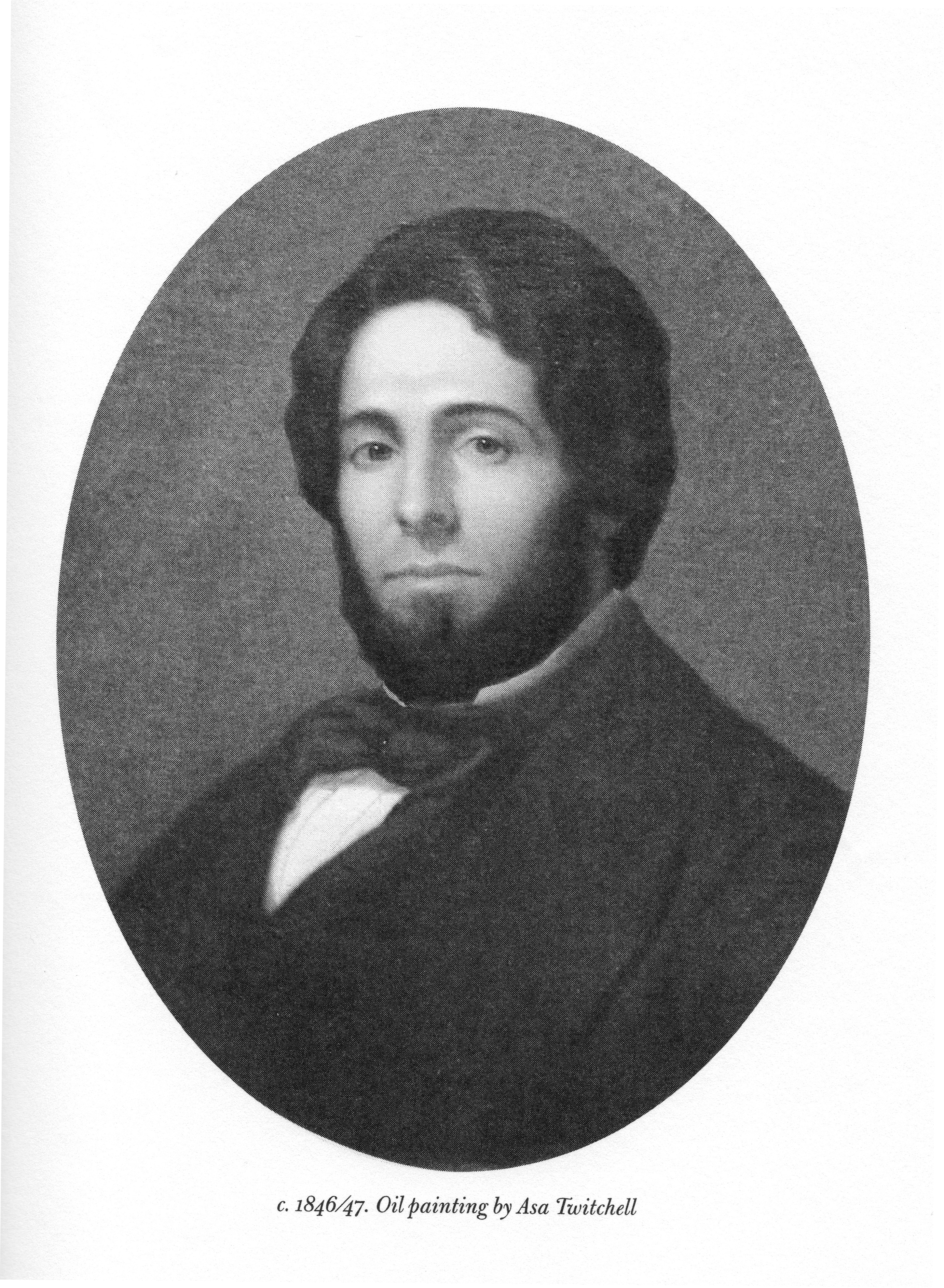 Oil Painting of Herman Melville in 1846/7.